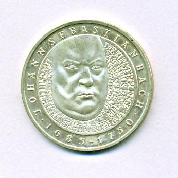 Johann-Sebastian-Bach memorial coin, 10 Deutschmarks, frontside